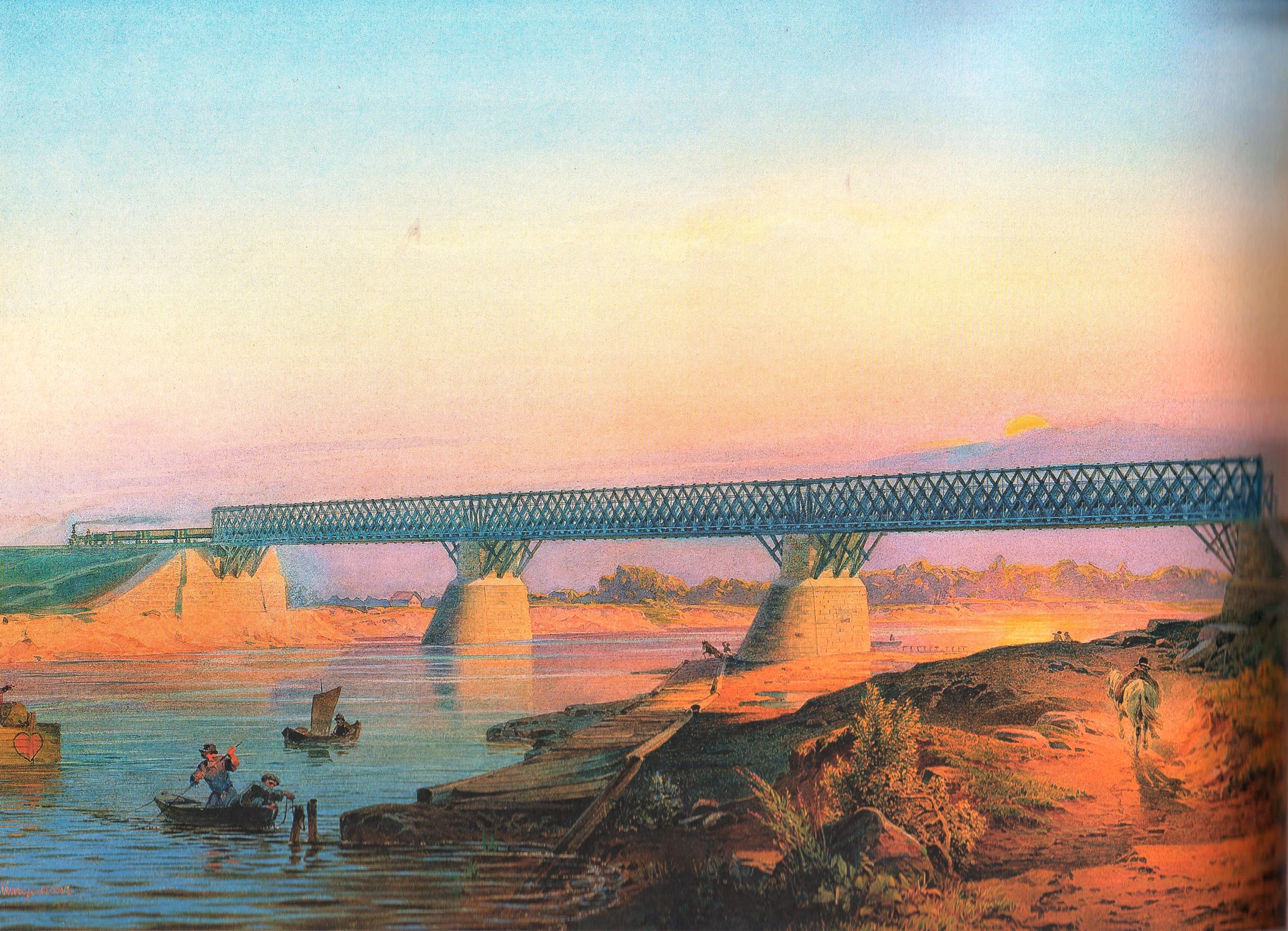 Bridge over the Tvertsa river. Saint Petersburg–Moscow railway